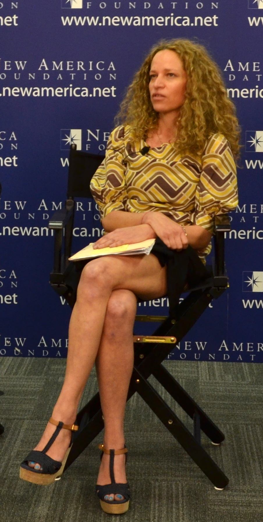 American journalist Katie Roiphe at New America's 2013-06-13 Event: Modern Family: Coupling and Uncoupling in America. (Note that the date of the event doesn't match the date on the file's EXIF.)